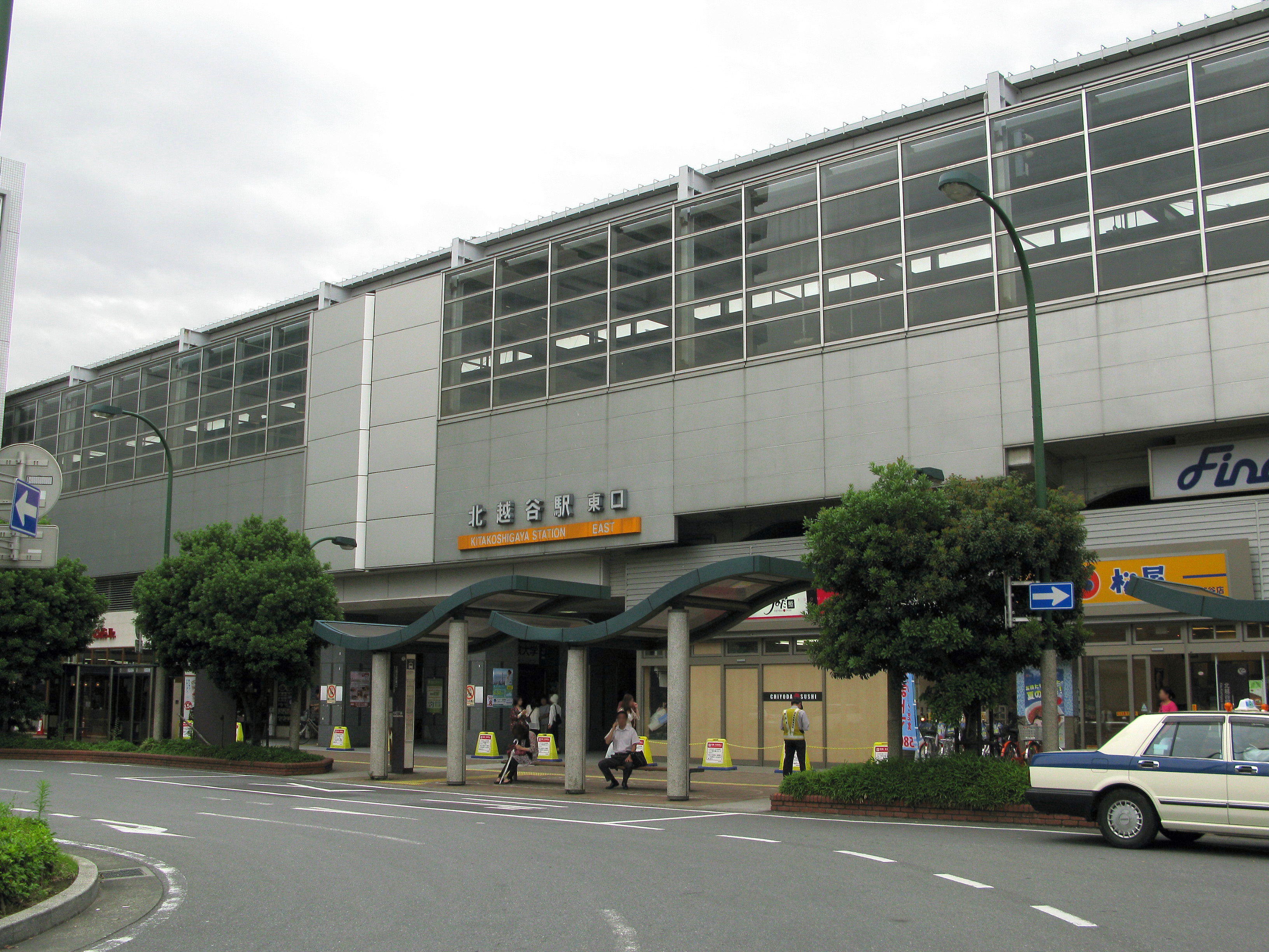 The east entrance of Kita-Koshigaya Station in Koshigaya, Saitama Prefecture, Japan